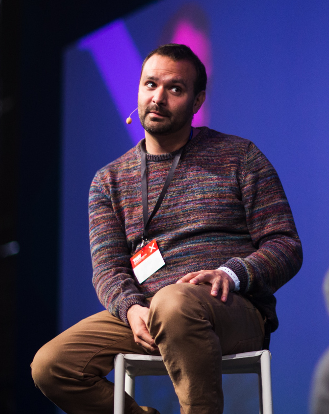 The Next Web Conference 2015